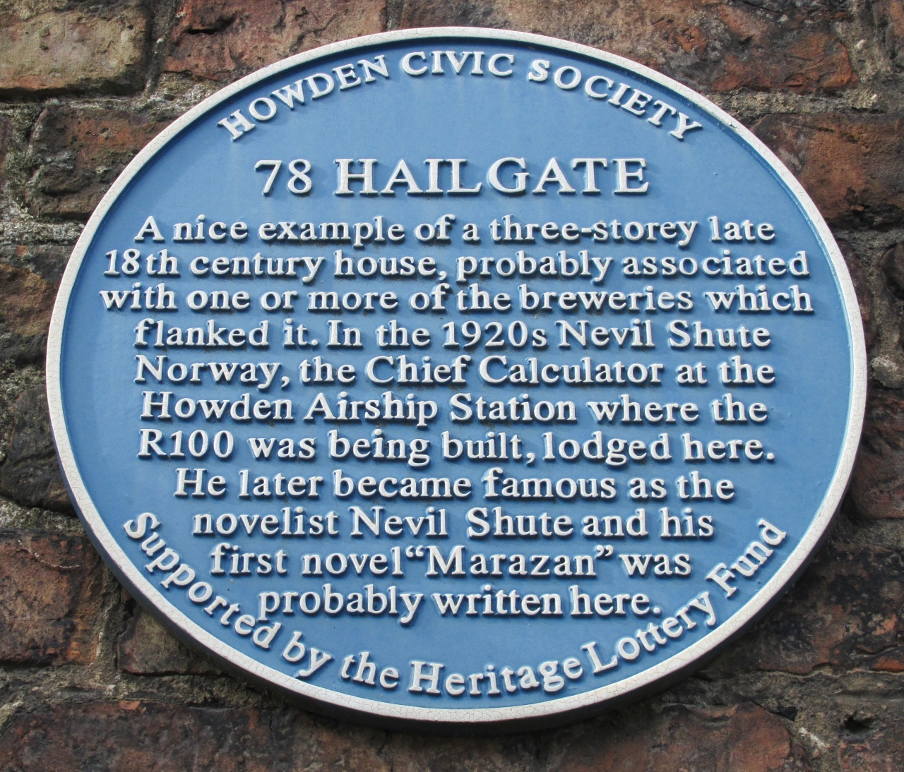 No.78, Hailgate, Howden, East Riding of Yorkshire, England.Blue plaque honoring Nevil Shute. This image represents an Open Plaques entry #9401.